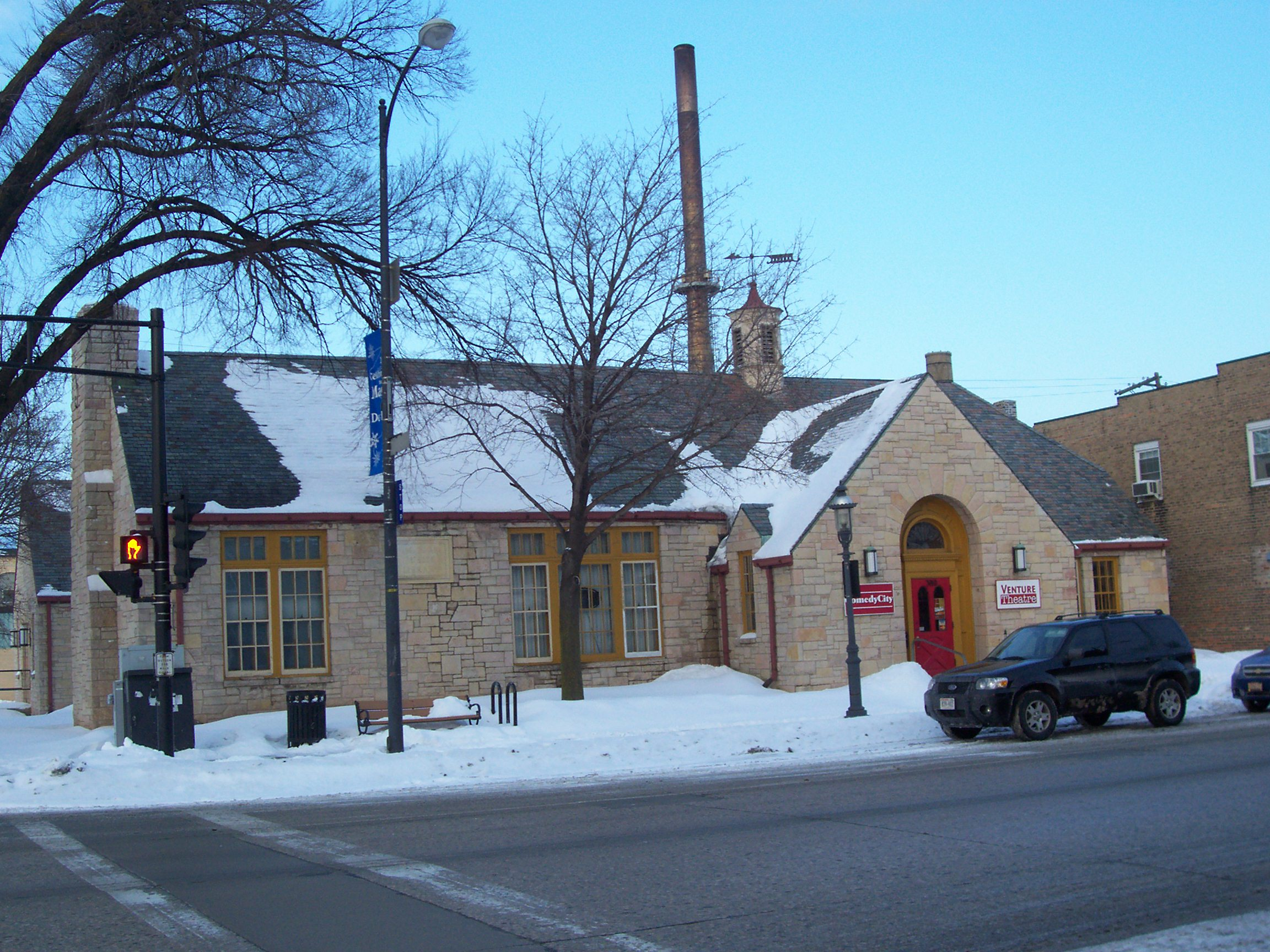 Looking north at the De Pere Public Library. The former library is listed on the National Register of Historic Places.